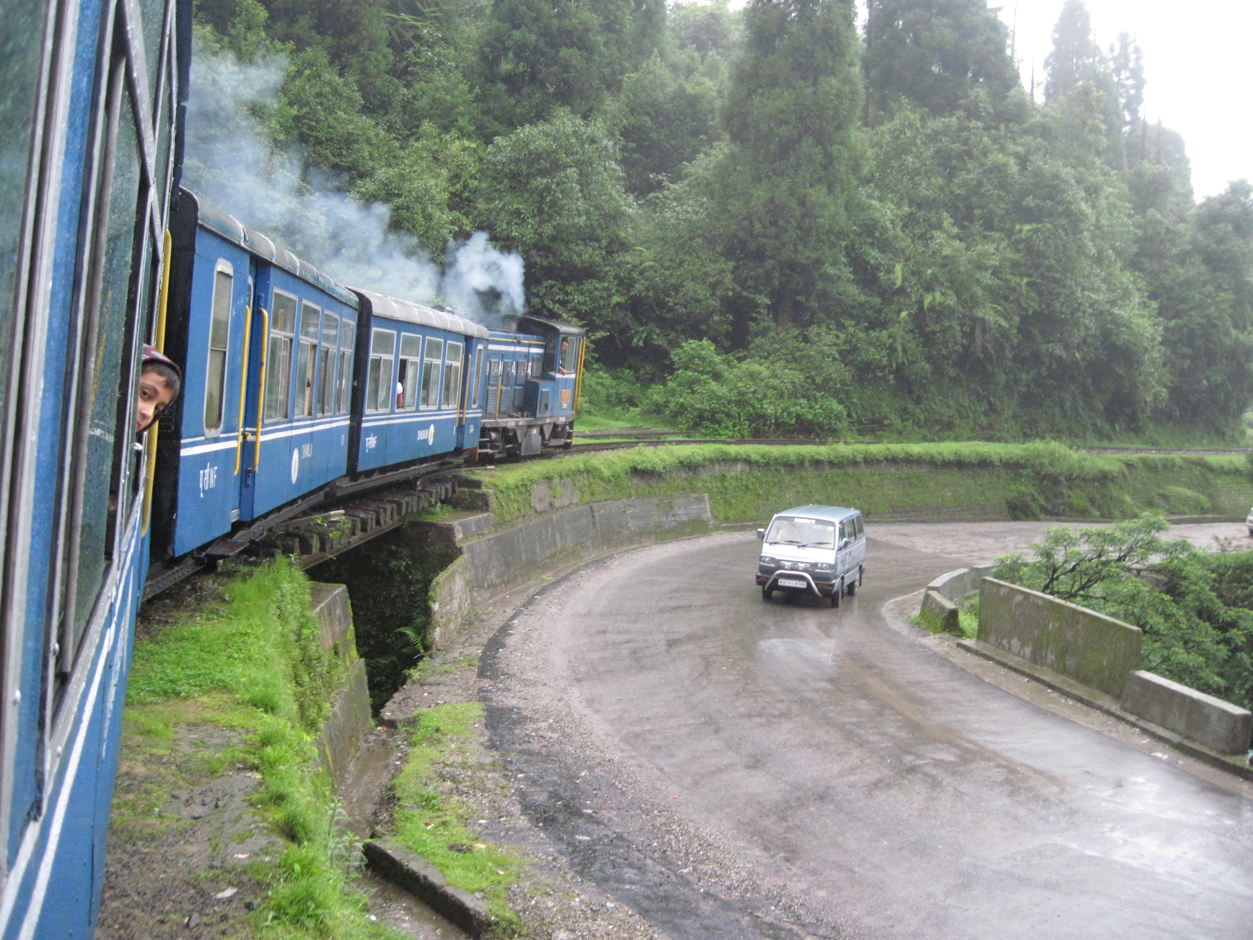 toy train darjeeing